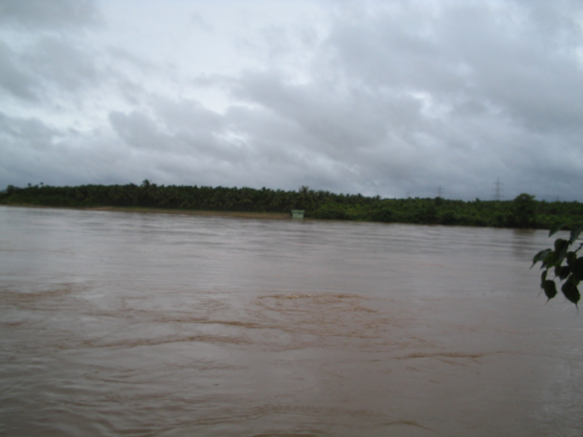 taken near Shimoga, Karnataka, India